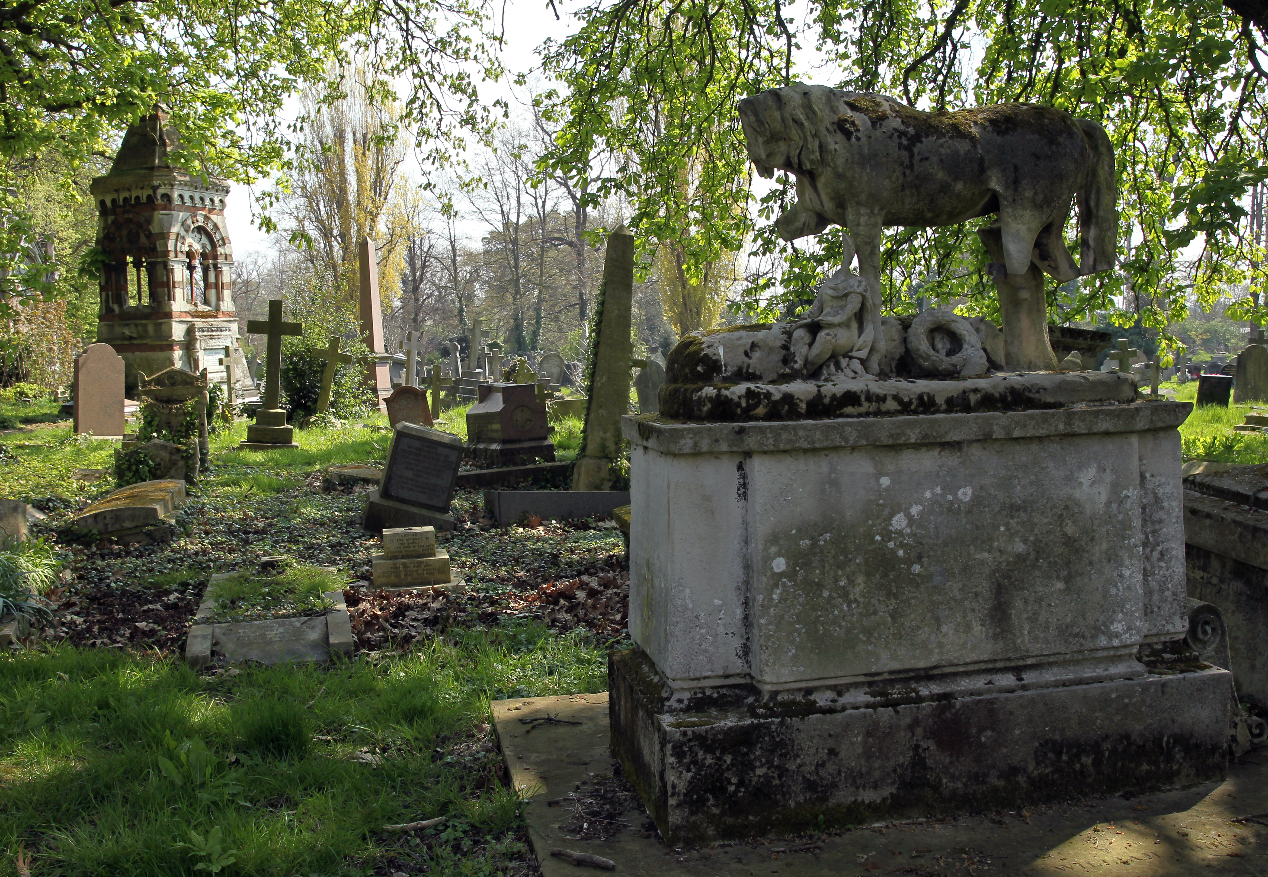 Kensal Green Cemetery, April 2019.